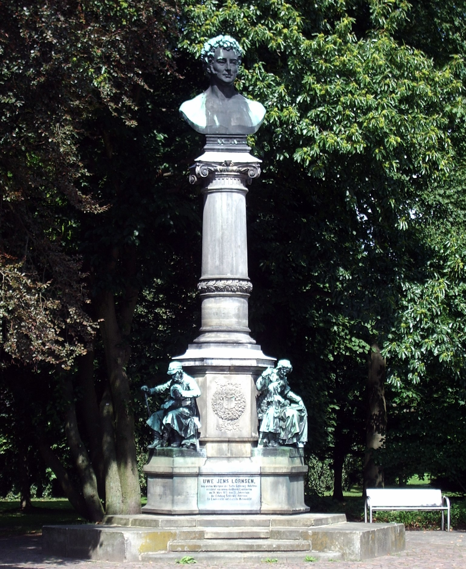 Uwe-Jens-Lornsen-Memorial in Rendsburg, Schleswig-Holstein, Germany